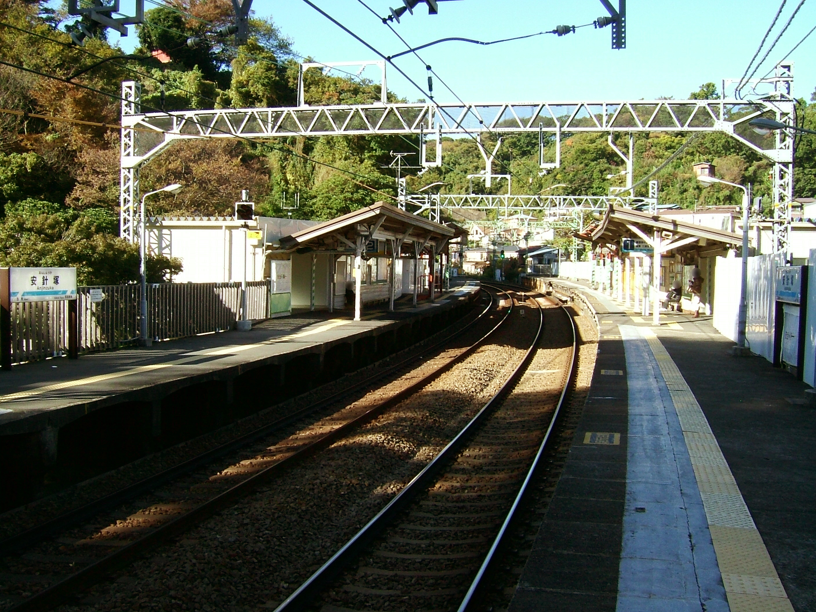 Anjinzuka Station platform (Keihin Electric Express Railway Main Line)